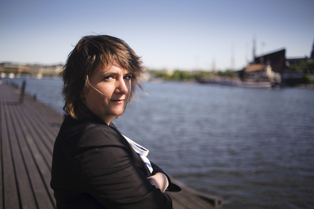 Belgian illustrator and author Kitty Crowther in Stockholm, Sweden.